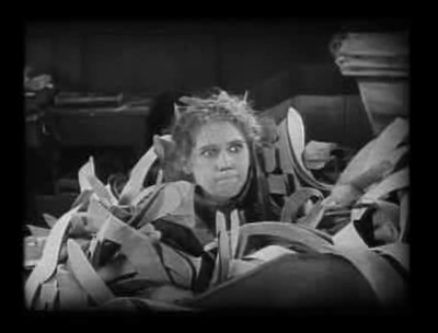 Mary Pickford in Suds (1920), a film by Jack Dillon